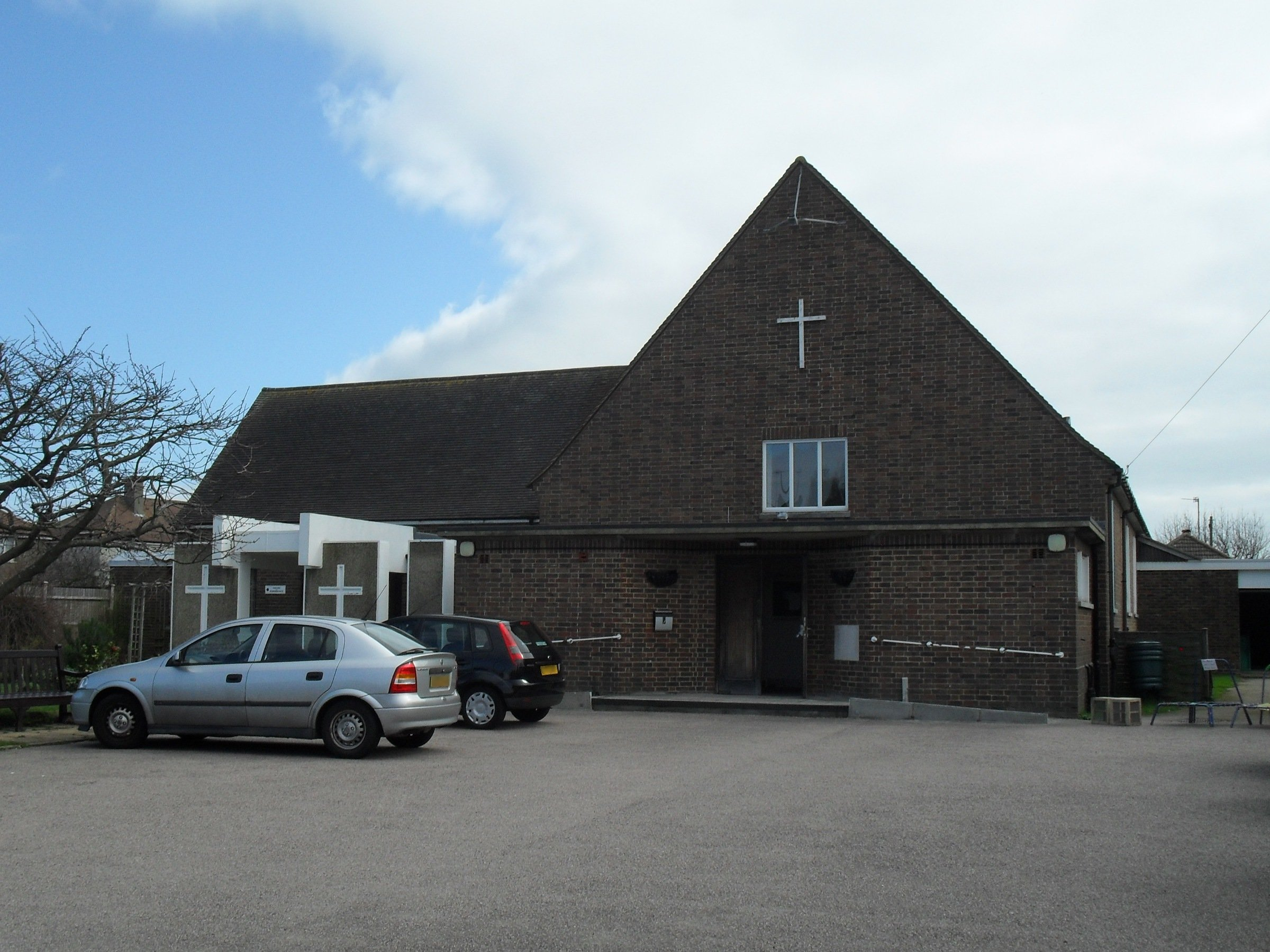 St Peter's Church, The Hydneye, Eastbourne, East Sussex, England. A postwar Anglican church on this housing estate in the northeast of the town.